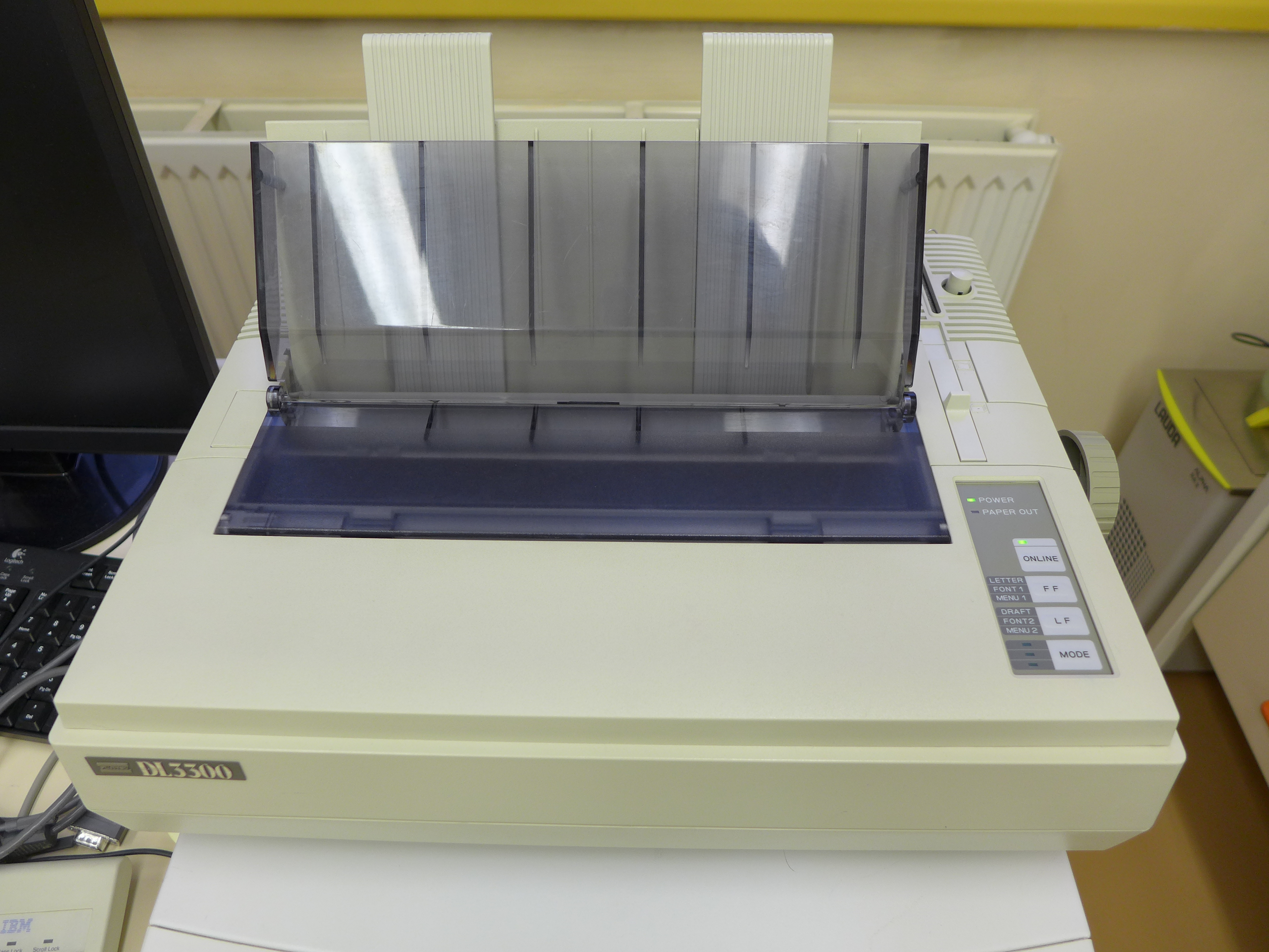 Fujitsu DL-3300 24 pin dot matrix printer